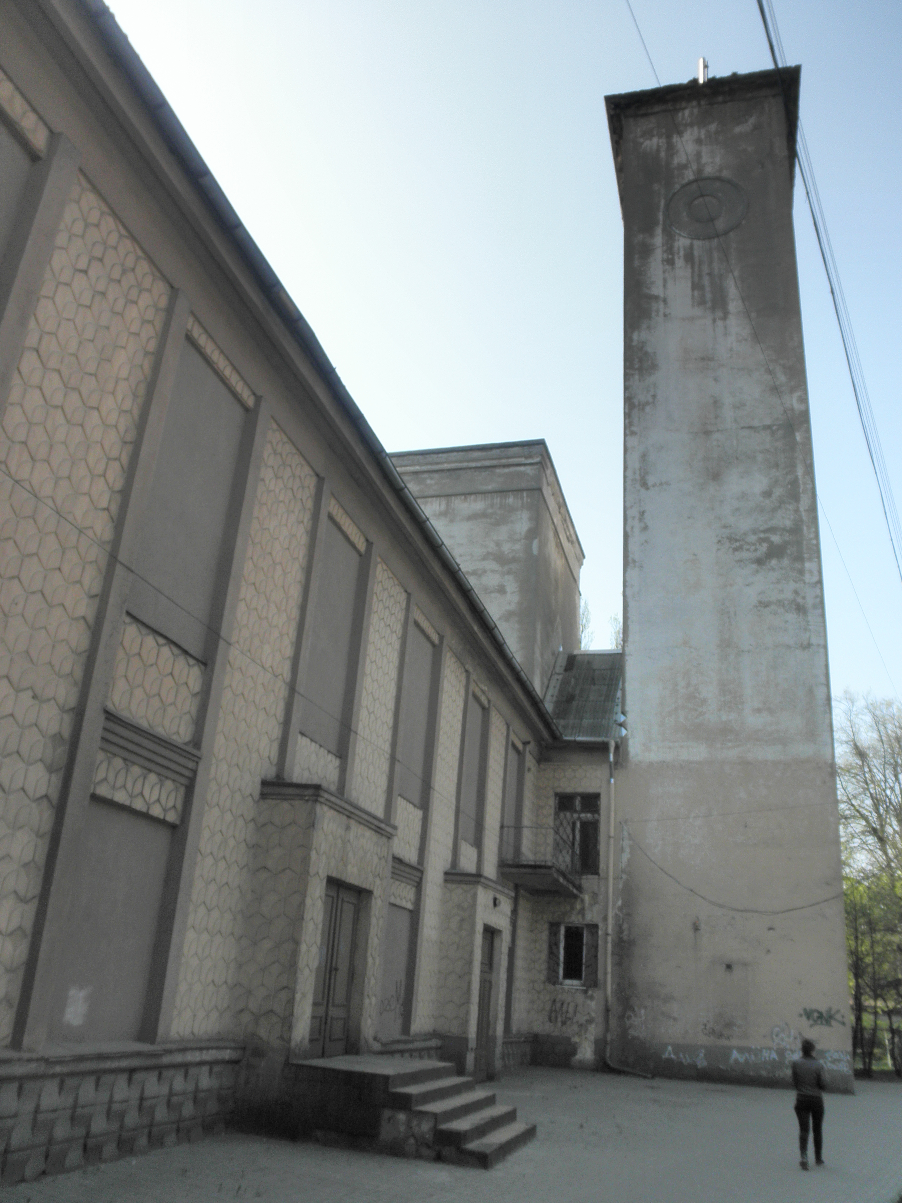 Church in Juditten (Mendelejewo) in Kaliningrad in Russia